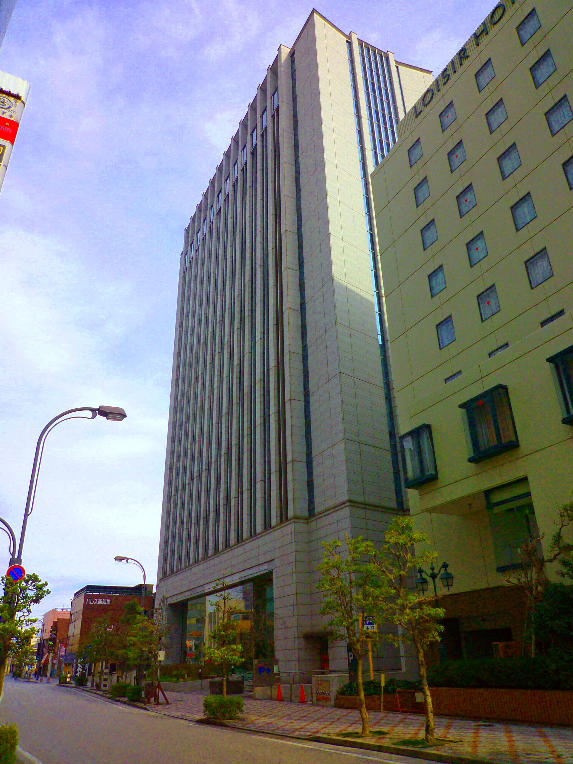 Head Office of The "Mie Bank" in Nishishinchi, Yokkaichi, Mie, Japan.